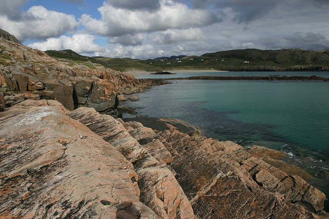 Rocky coastline beyond Oldshoremore Beach Unusual rock formations on the headland between Oldshoremore and Polin beaches.